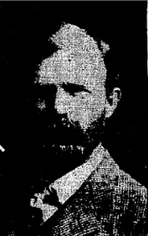 James Stephens (1858-1938), American architect, most know for work in Seattle, Washington and vicinity